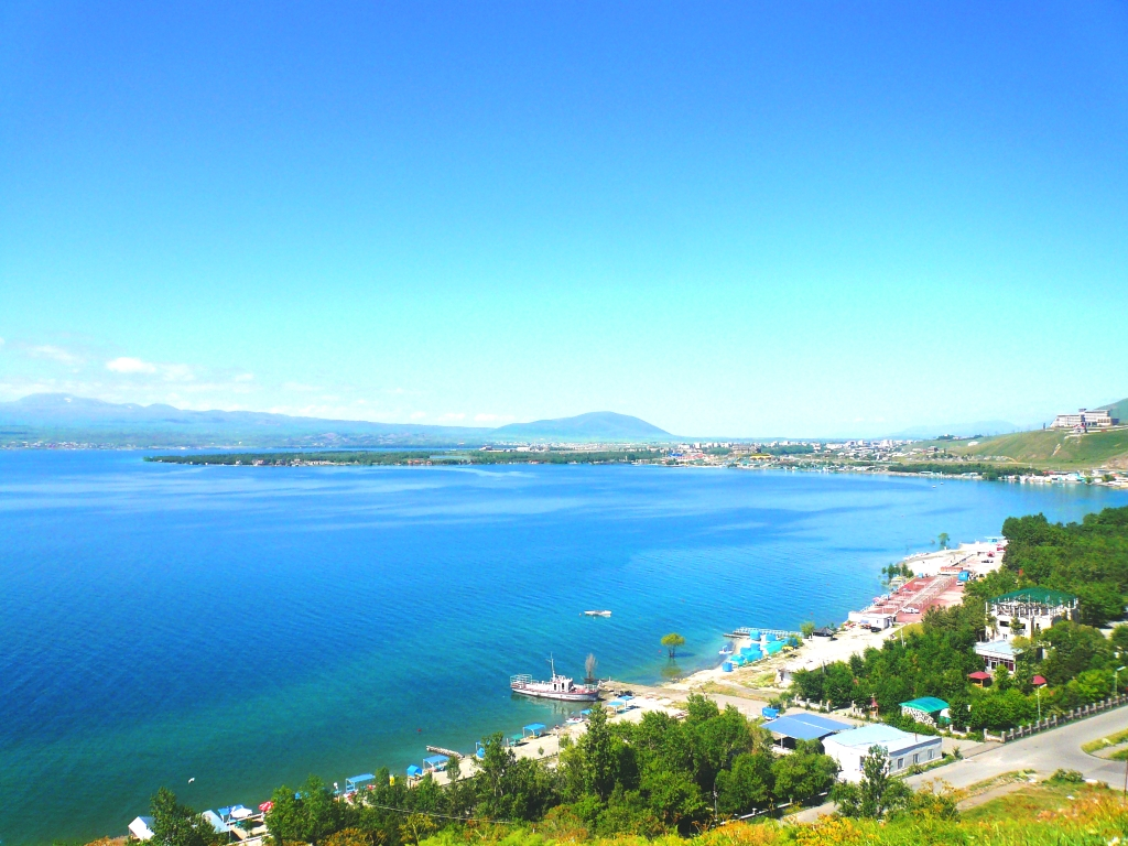 Sevan city in Armenia, the beach.